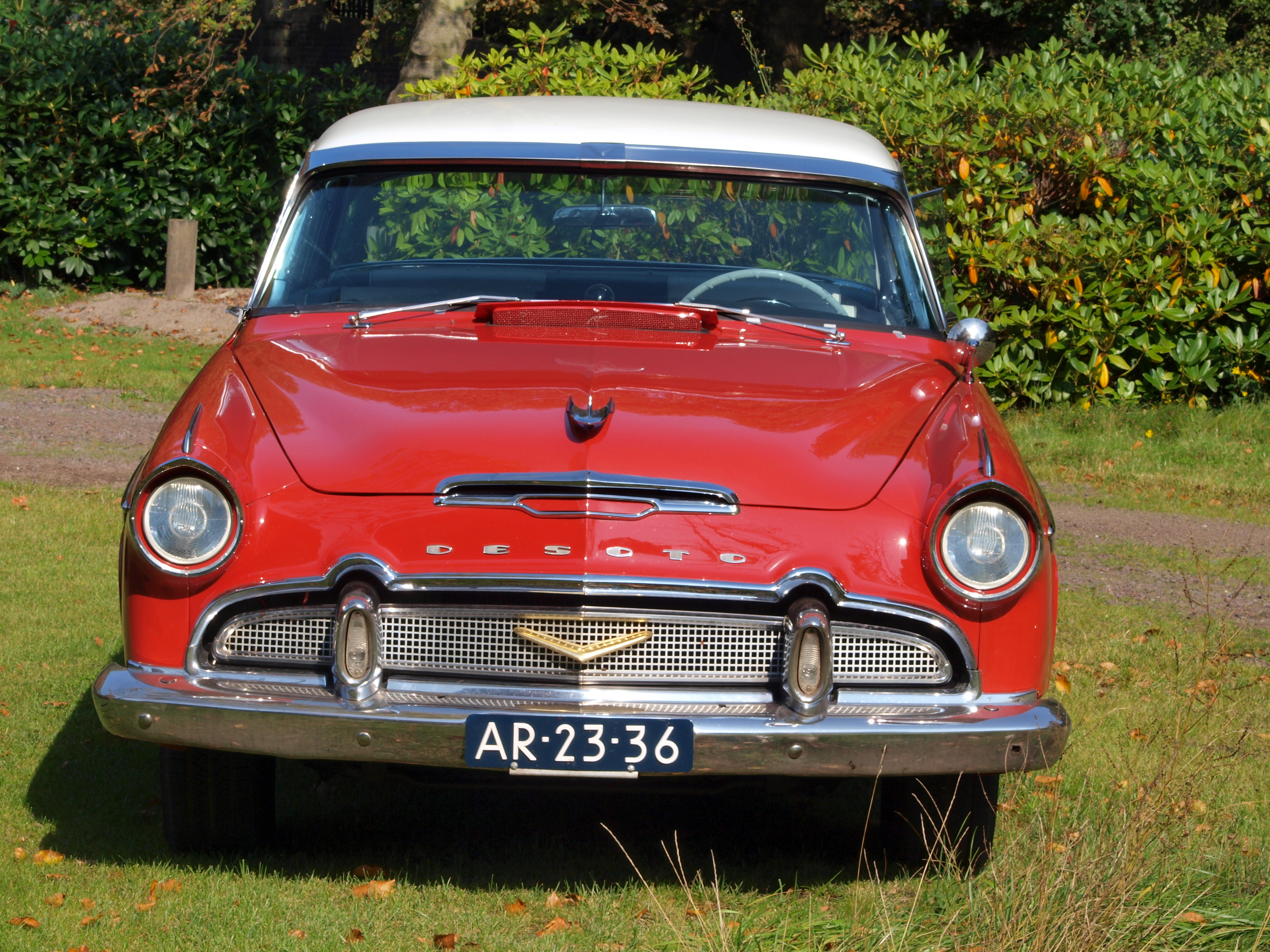 Photographed at the premmesis of the Louwman museum, The Hague, The Netherlands. OLYMPUS DIGITAL CAMERA